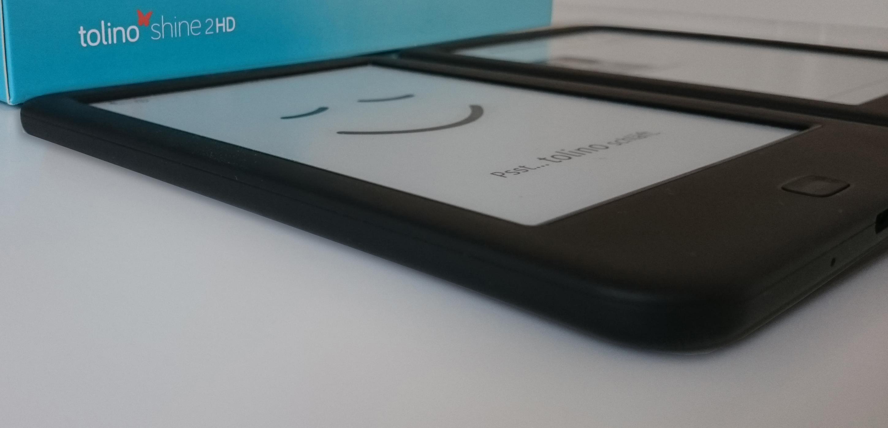 from the side